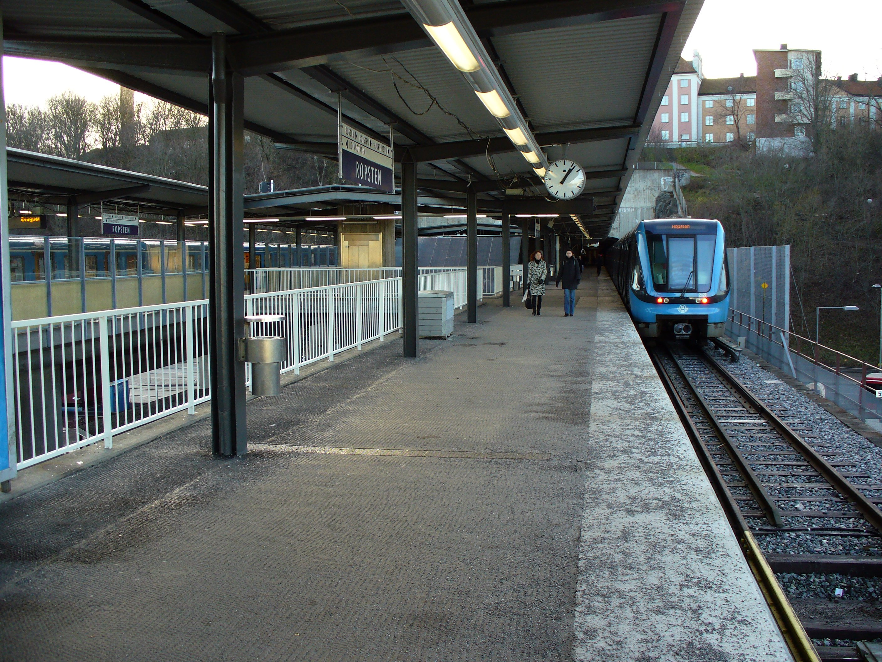 Platform of Ropsten underground station, Stockholm, Sweden. Faces are blurred.